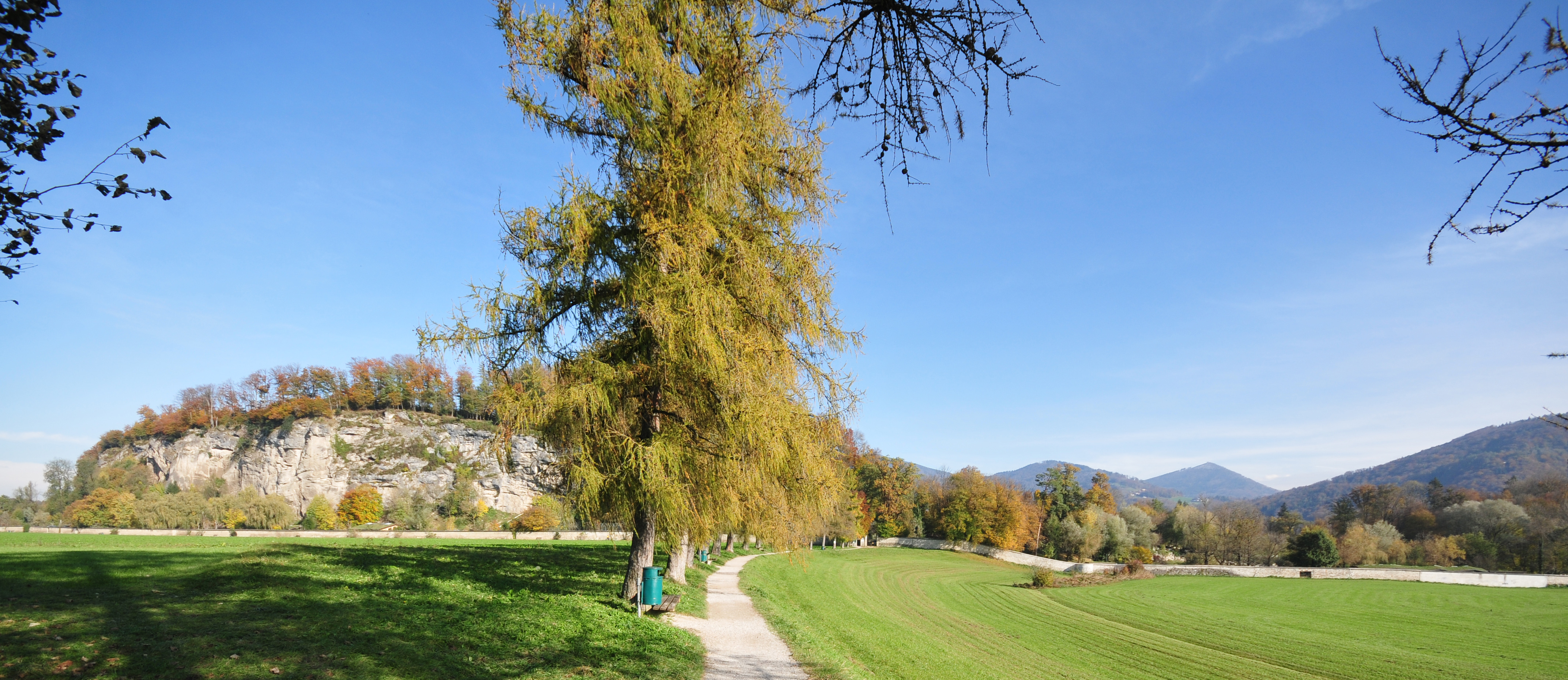 On the left: Hellbrunn mountain, city of Salzburg, Austria, seen from Anif; Salzburg Zoo is located at its foot. Wikipedia im Landtag – Salzburg 31. Oktober 2012 in SalzburgDieses Foto wurde im Rahmen des Projektes „Wikipedia im Landtag“ erstellt.